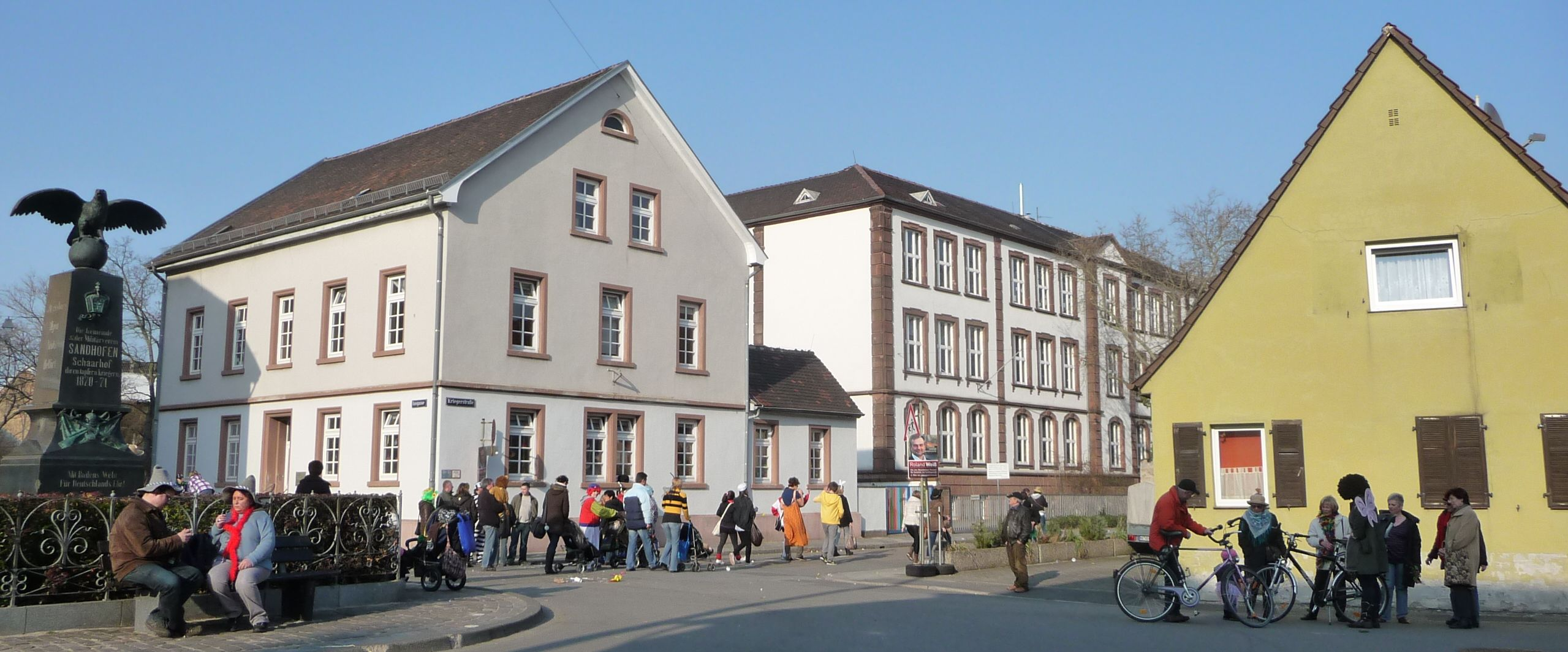 Mannheim-Sandhofen